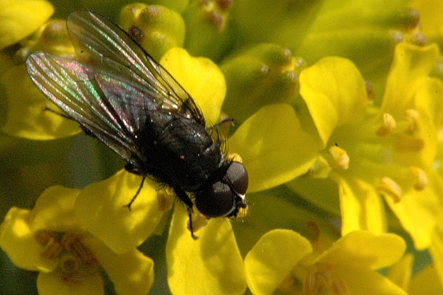 Picture taken in Commanster, Belgian High Ardennes . Species: Phorbia fumigata